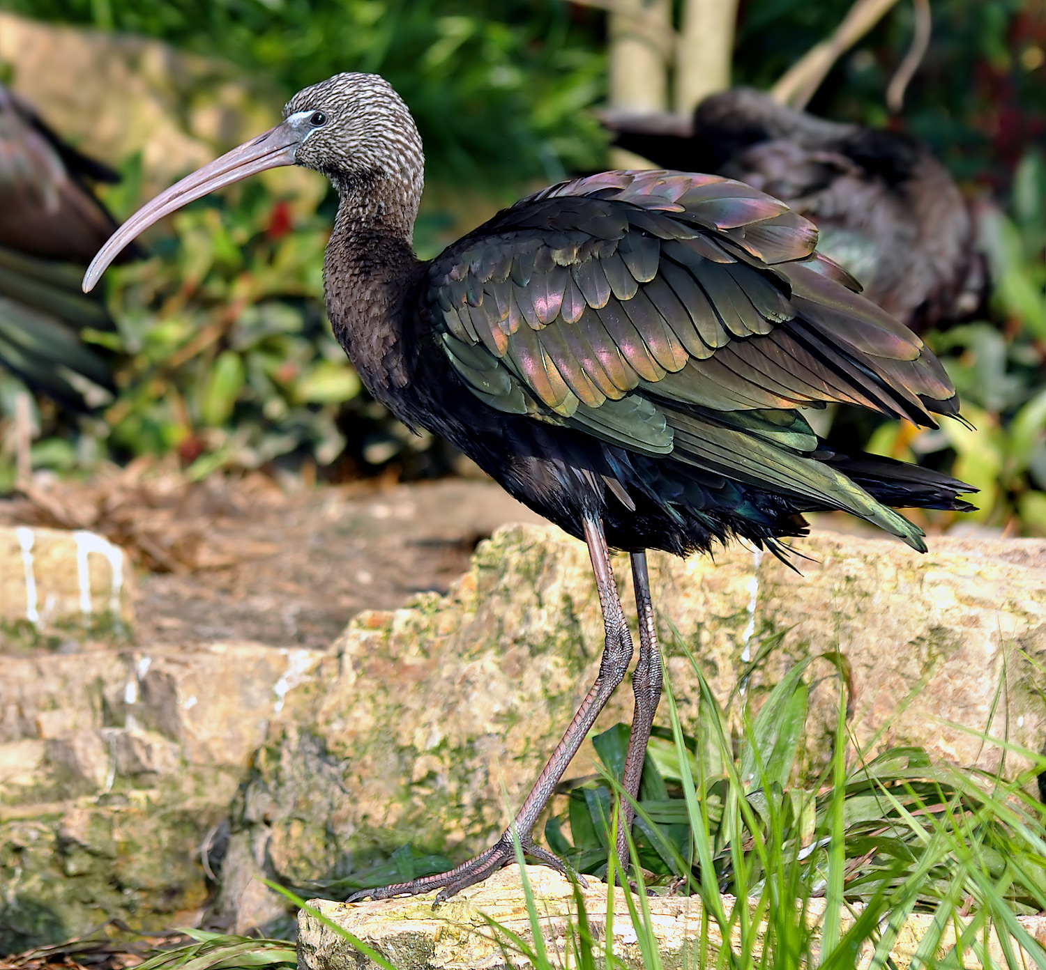 This image shows a Glossy Ibis (Plegadis falcinellus).